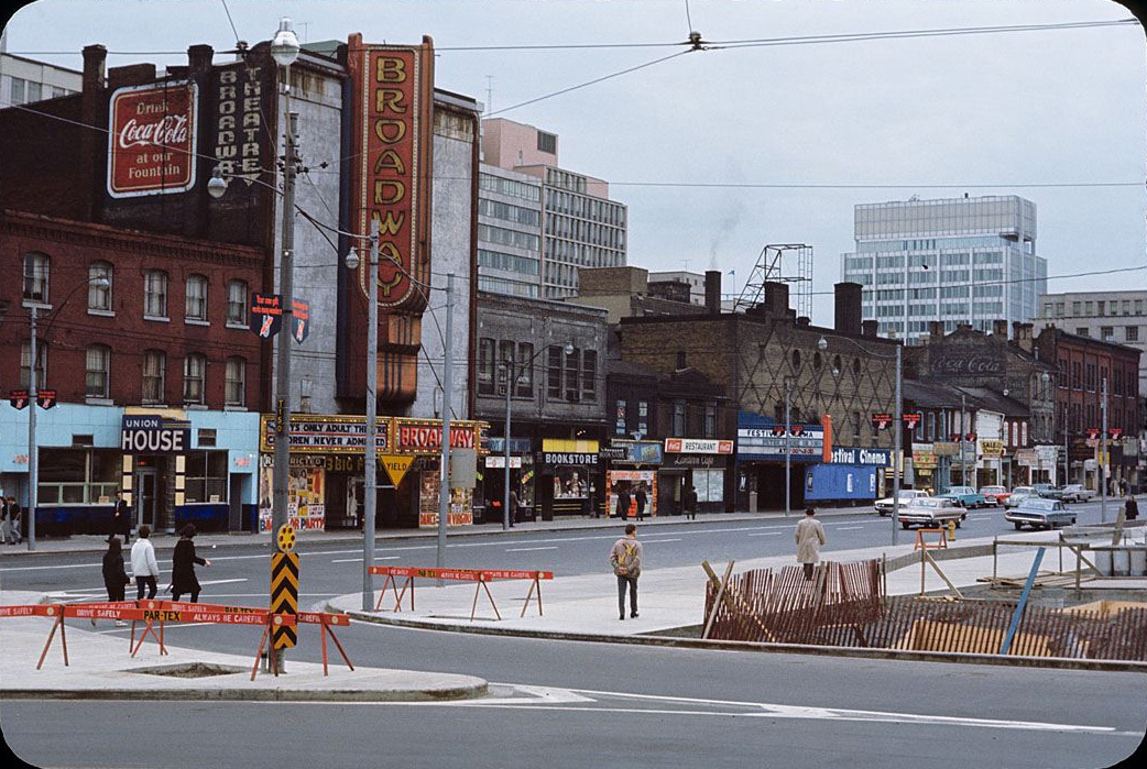 The south side of Queen Street West, between Bay Street and University Avenue, in Toronto, Ontario, Canada. Nathan Phillips Square is under construction on the north side of the street.